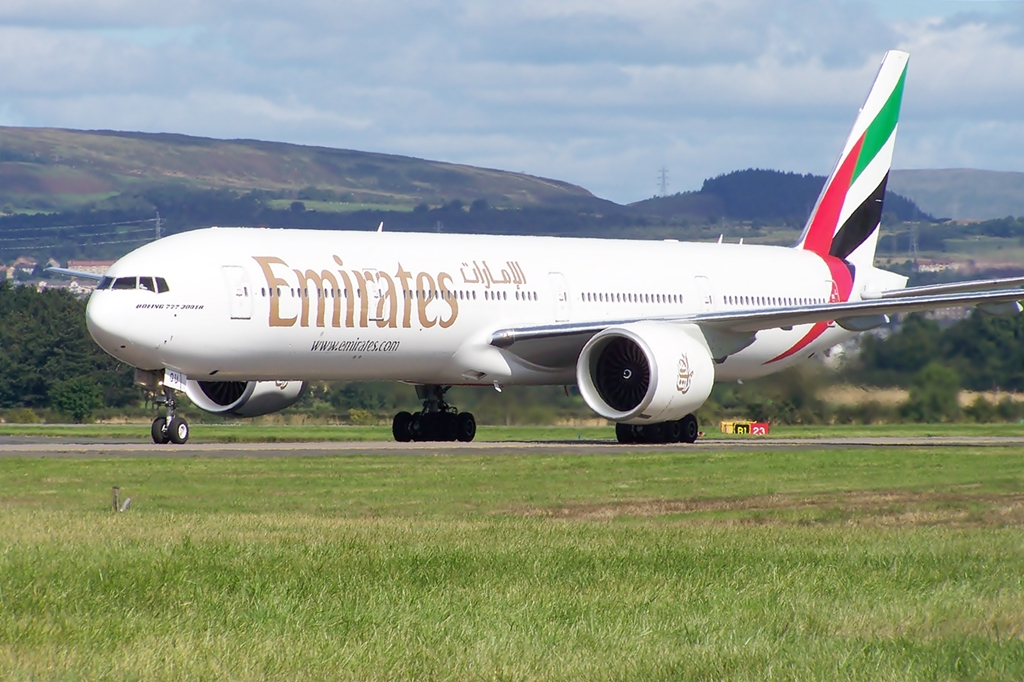 A6-EGU Boeing 777 Emirates at Glasgow Airport